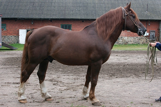 Tori horse of old universal type, stallion Lennar